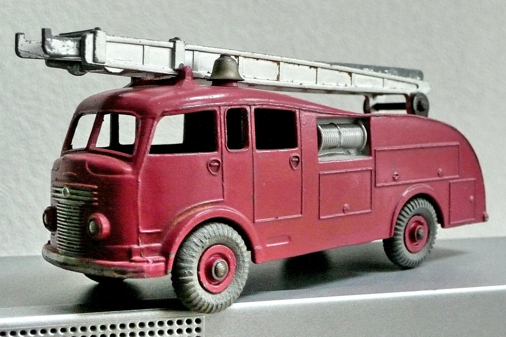 Dinky Toys fire engine.